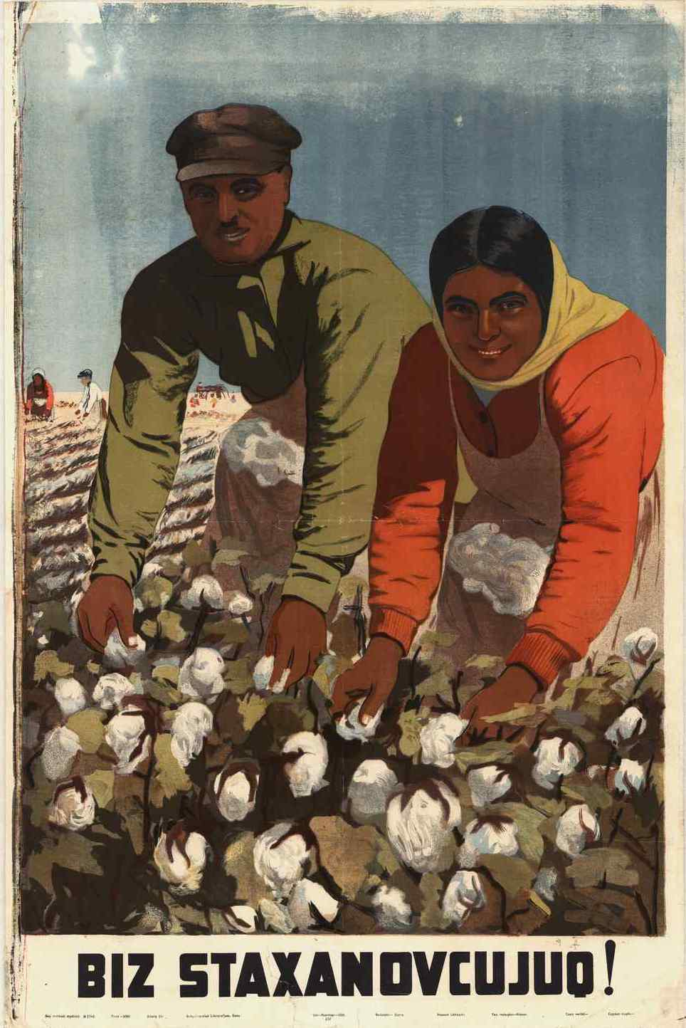 Poster of Azerbaijan 1936. Labour ethics